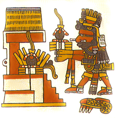 The Aztec god, Xiuhtecuhtli, as one of the nine Lords of the Night, on page 14 of the Codex Borgia, with an offering of rubber balls